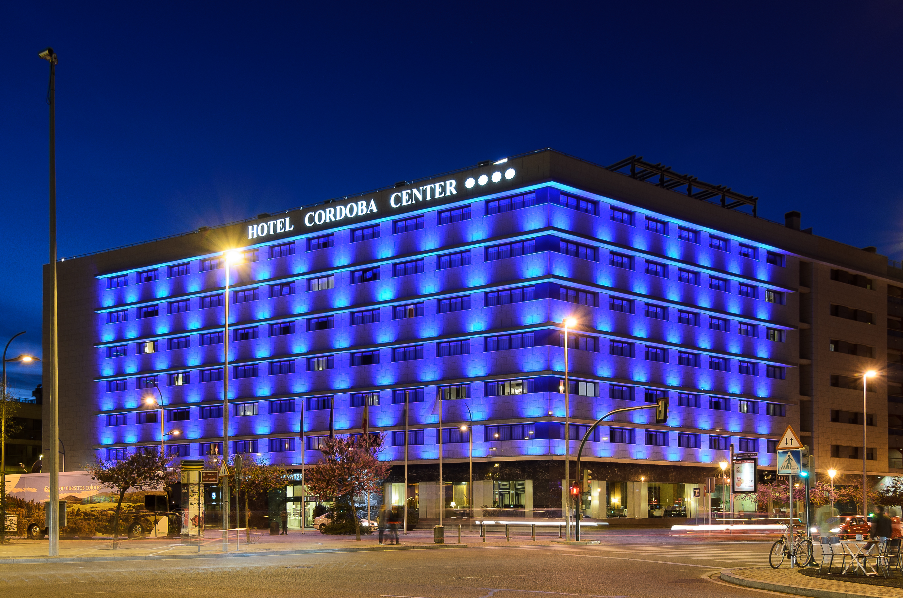 Night view of the Cordoba Center Hotel in Cordoba, Spain. Illuminated in blue because of the World Autism Awareness Day 2016.